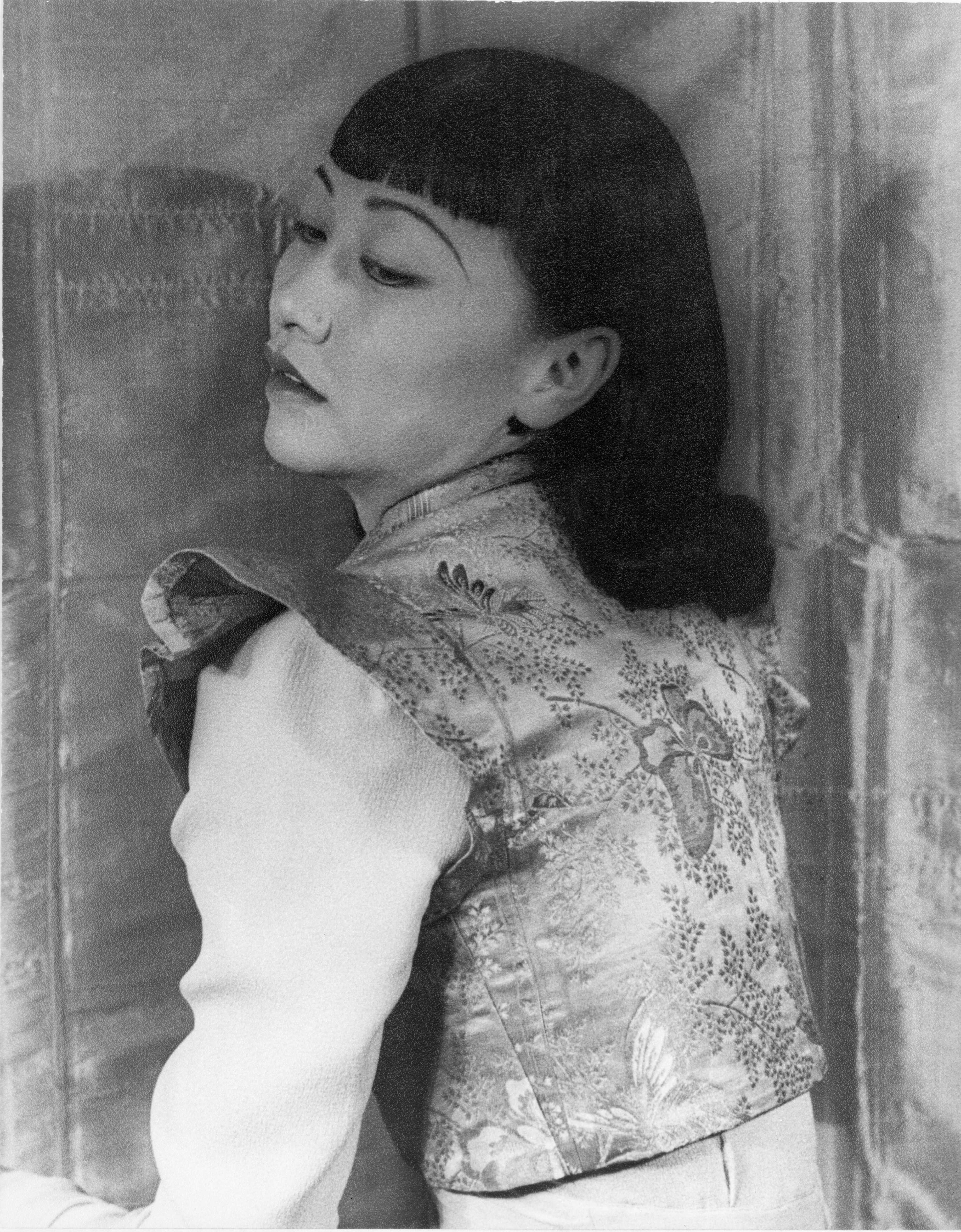 Portrait of Anna May Wong.